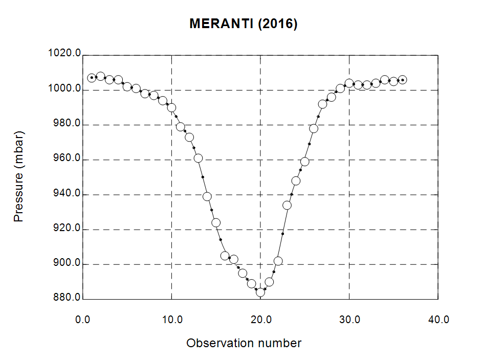 Pressure analysis of Typhoon Meranti (2016) using the Courtney & Knaff (2009) method with the FNL global model. Indep. var. Dep. var. Theory Residuals 1.000E+00 1.007E+03 1.007E+03 -2.659E-01 2.000E+00 1.008E+03 1.008E+03 4.991E-01 3.000E+00 1.006E+03 1.007E+03 -6.554E-01 4.000E+00 1.006E+03 1.005E+03 8.370E-01 5.000E+00 1.002E+03 1.003E+03 -7.609E-01 6.000E+00 1.001E+03 1.000E+03 5.267E-01 7.000E+00 9.980E+02 9.986E+02 -5.505E-01 8.000E+00 9.970E+02 9.968E+02 2.334E-01 9.000E+00 9.940E+02 9.942E+02 -2.360E-01 1.000E+01 9.900E+02 9.888E+02 1.167E+00 1.100E+01 9.790E+02 9.808E+02 -1.790E+00 1.200E+01 9.730E+02 9.724E+02 5.978E-01 1.300E+01 9.610E+02 9.593E+02 1.702E+00 1.400E+01 9.390E+02 9.407E+02 -1.732E+00 1.500E+01 9.240E+02 9.222E+02 1.758E+00 1.600E+01 9.050E+02 9.082E+02 -3.156E+00 1.700E+01 9.030E+02 9.009E+02 2.085E+00 1.800E+01 8.950E+02 8.951E+02 -1.367E-01 1.900E+01 8.890E+02 8.883E+02 7.424E-01 2.000E+01 8.840E+02 8.850E+02 -9.547E-01 2.100E+01 8.900E+02 8.894E+02 5.944E-01 2.200E+01 9.020E+02 9.057E+02 -3.730E+00 2.300E+01 9.340E+02 9.298E+02 4.208E+00 2.400E+01 9.480E+02 9.479E+02 1.244E-01 2.500E+01 9.590E+02 9.613E+02 -2.297E+00 2.600E+01 9.780E+02 9.774E+02 5.588E-01 2.700E+01 9.920E+02 9.905E+02 1.505E+00 2.800E+01 9.960E+02 9.971E+02 -1.055E+00 2.900E+01 1.001E+03 1.001E+03 -6.958E-02 3.000E+01 1.004E+03 1.003E+03 6.202E-01 3.100E+01 1.003E+03 1.003E+03 -3.387E-01 3.200E+01 1.003E+03 1.003E+03 -1.822E-01 3.300E+01 1.004E+03 1.004E+03 -2.114E-01 3.400E+01 1.006E+03 1.005E+03 6.616E-01 3.500E+01 1.005E+03 1.005E+03 -4.690E-01 3.600E+01 1.006E+03 1.006E+03 1.492E-01